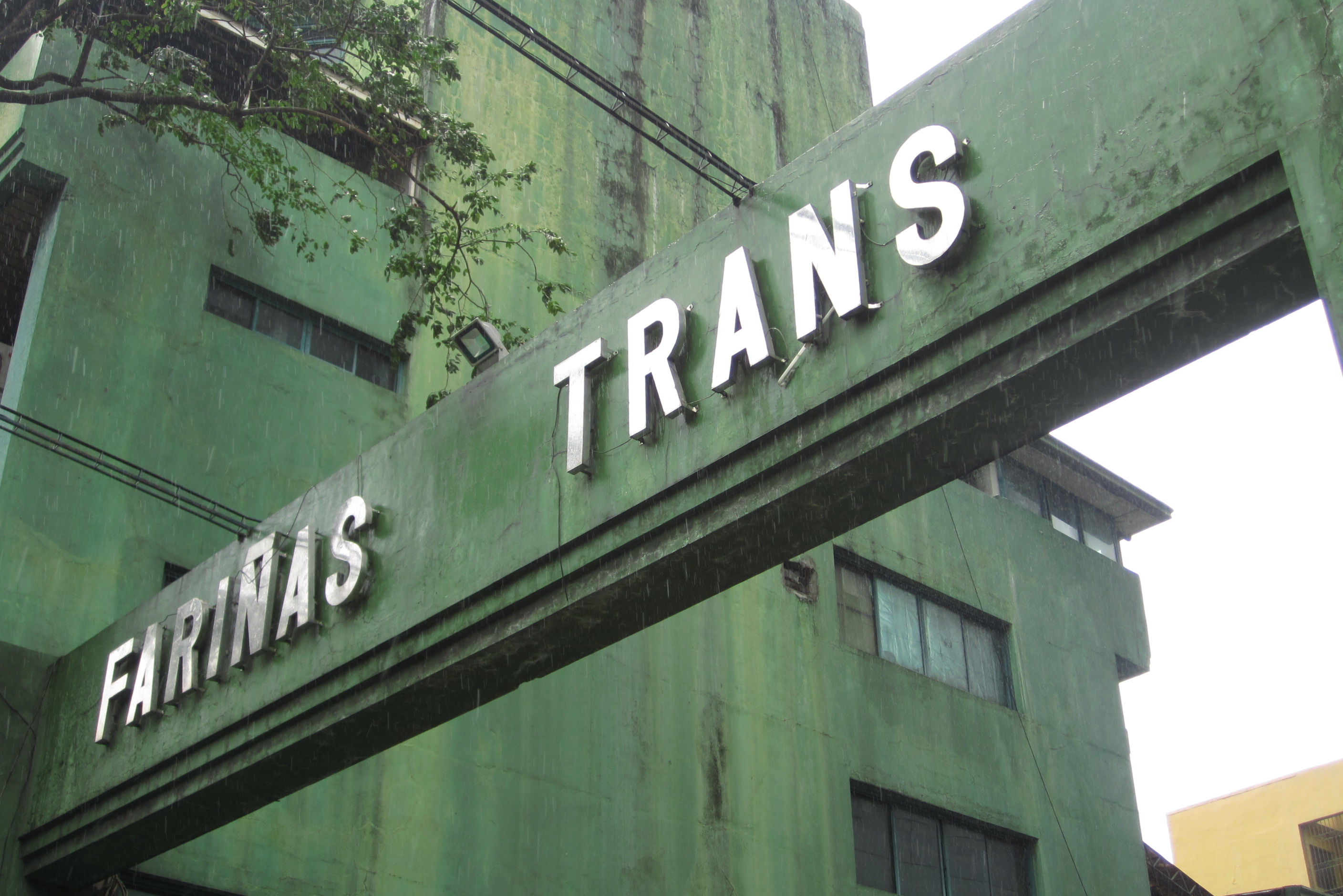 Located in Sampaloc Terminal, Manila, Philippines